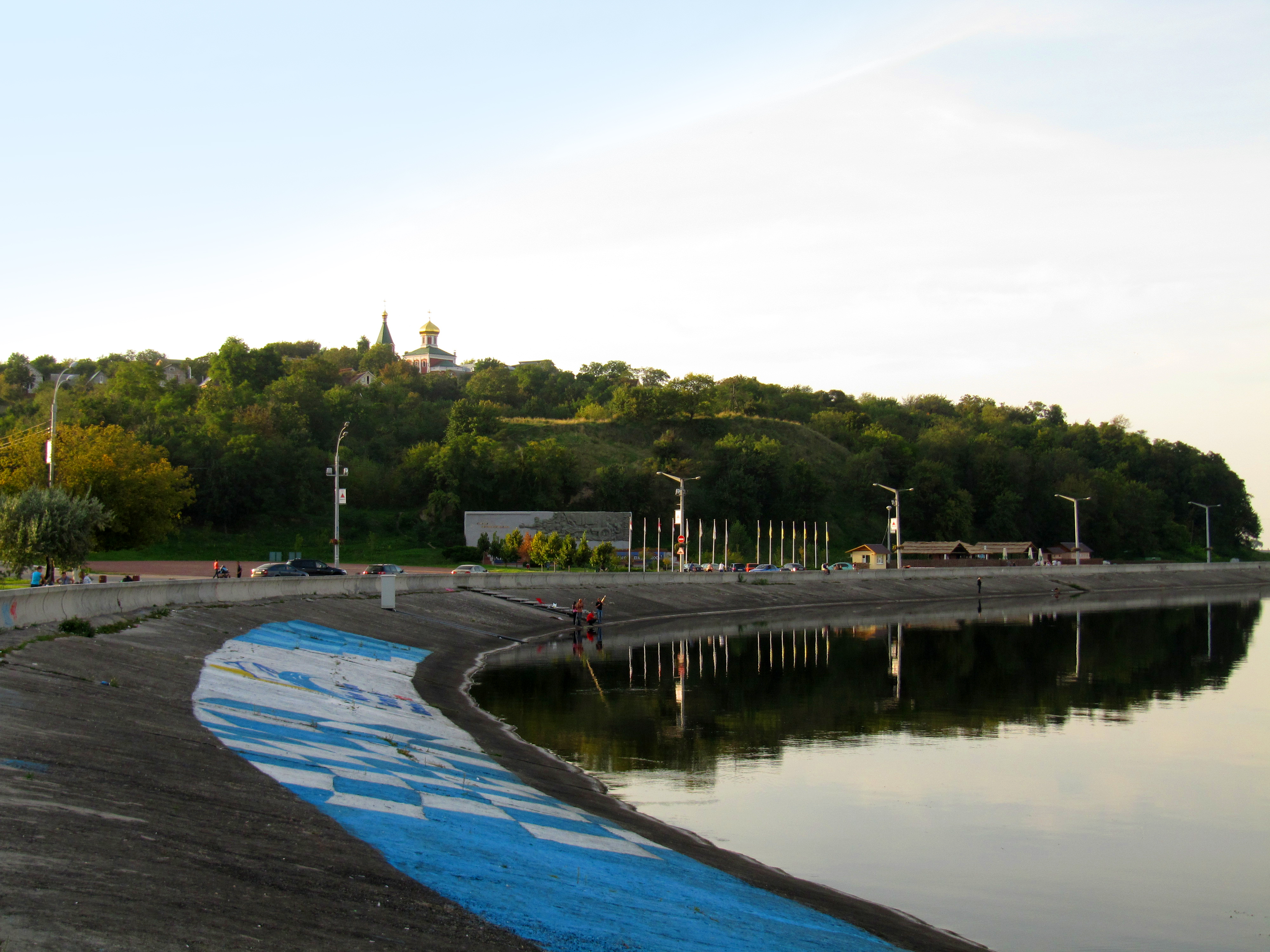 Ukraine, Vyshhorod. The historic landscape of Vyshhorod. Southern part of the defensive rampart.